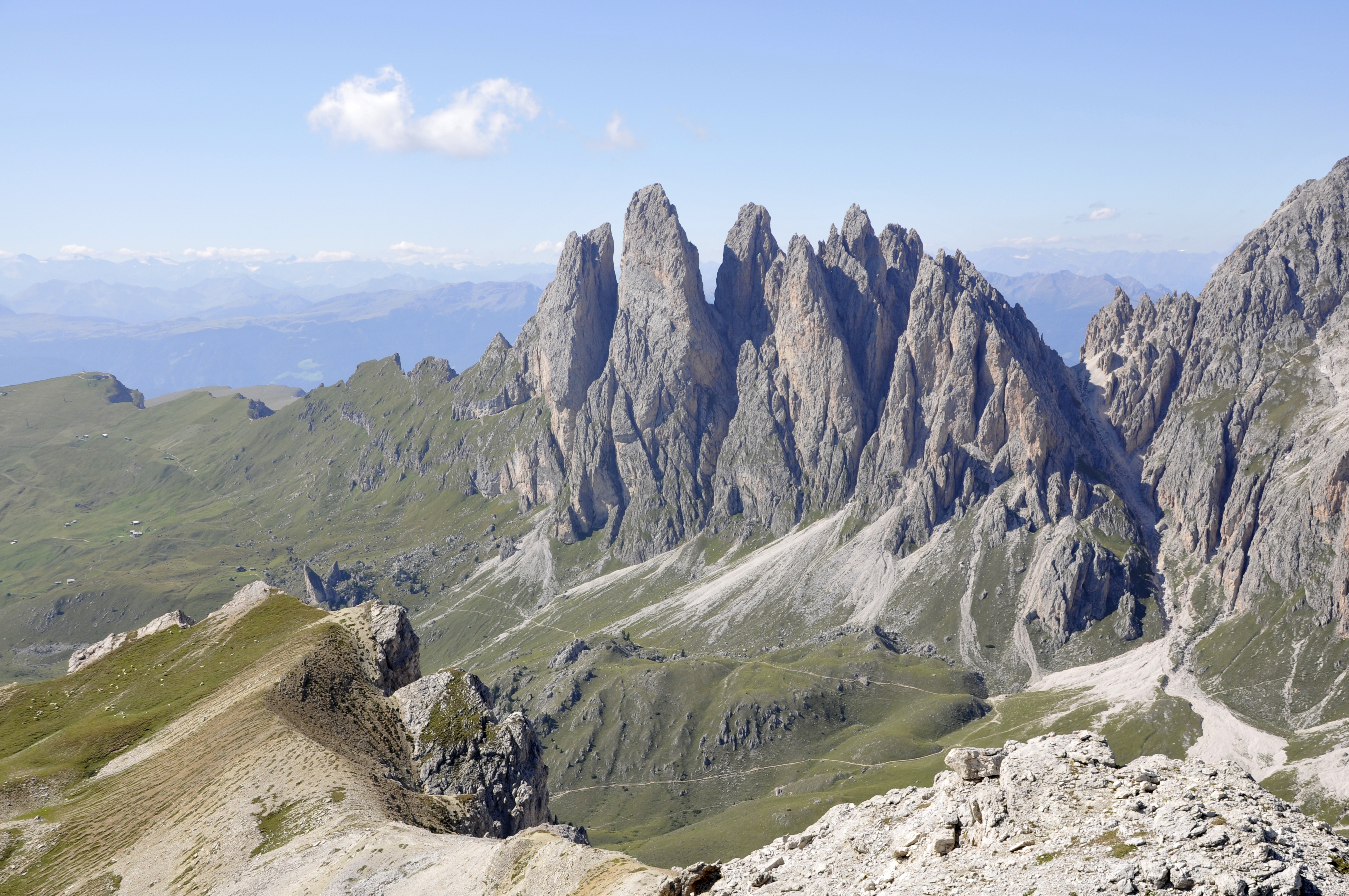 The Geisler group seen from Col dala Pieres (2759 m)